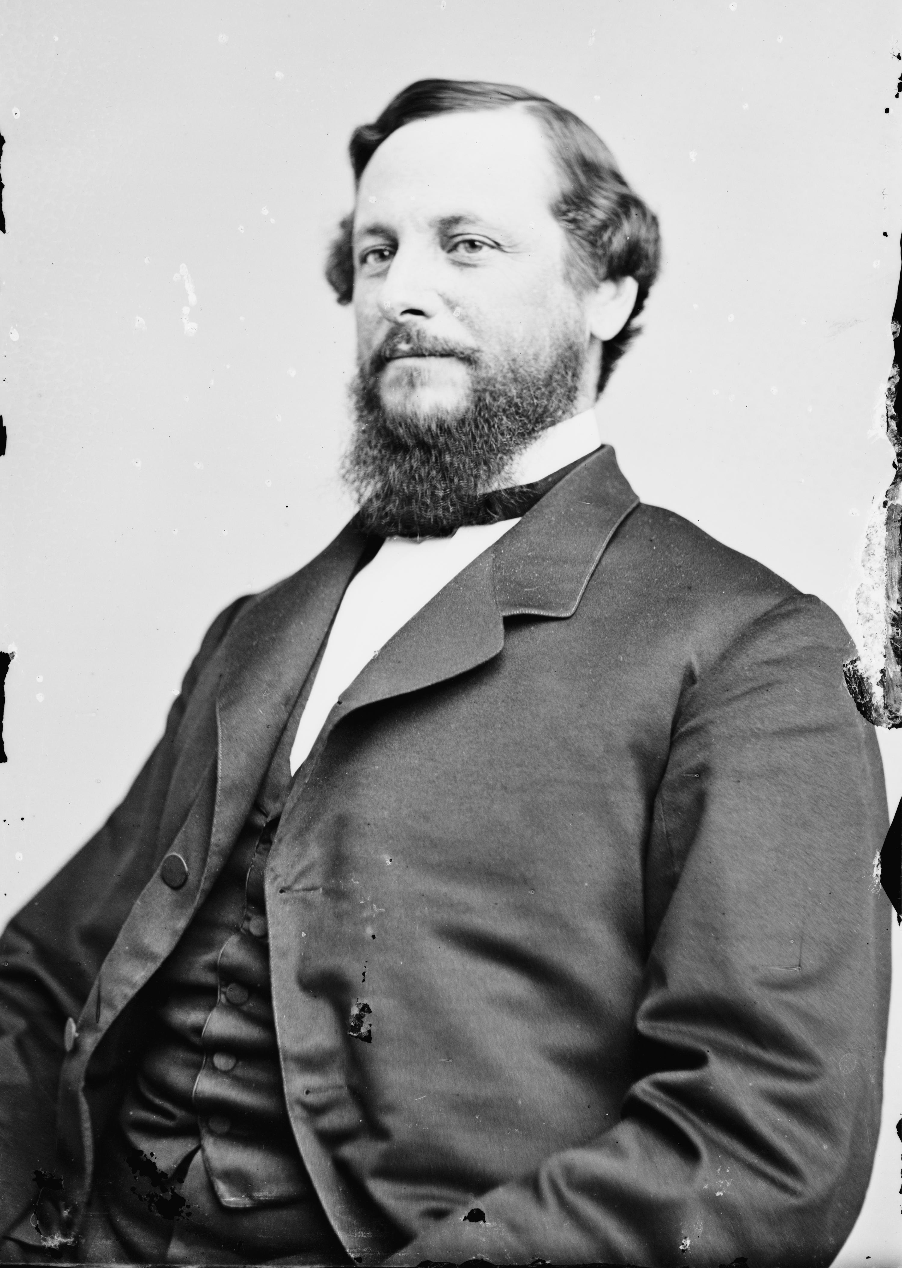 George H. Pendleton. Library of Congress description: "Hon. George Hunt Pendleton of Ohio"